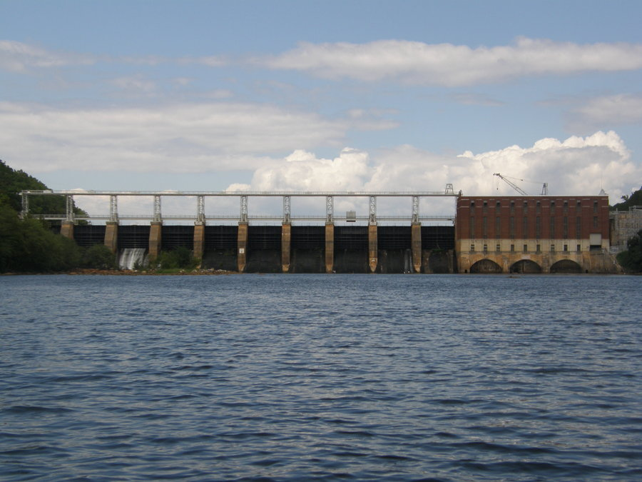 The dam creating High Rock Lake, built in 1927. It it the first of four dams on the Yadkin River, though the third built, North Carolina, USA